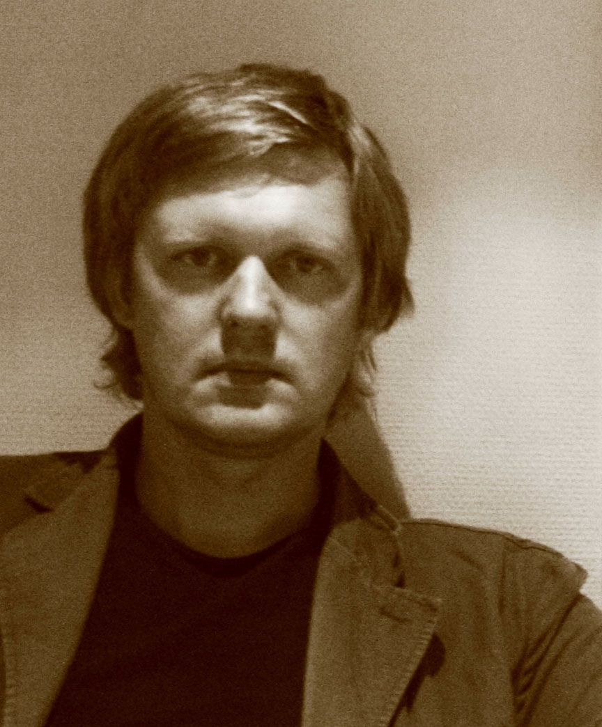 Photo portrait of artist Andres Koort